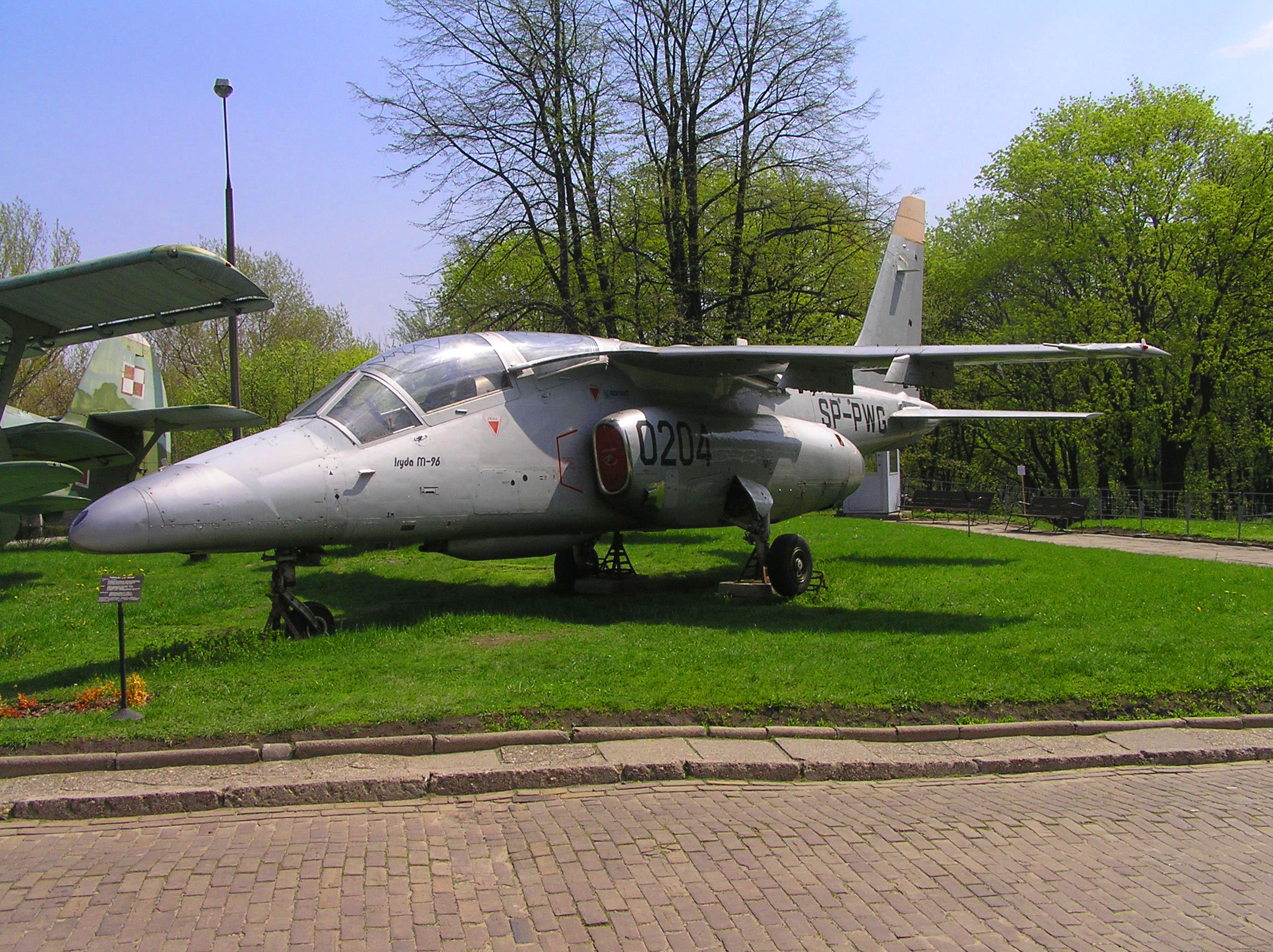 A PZL I-22 Iryda Polish light attack and advanced trainer aircraft.